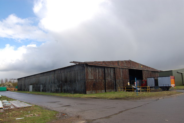 WW2 Bellman hangar at former RAF Stoke Orchard This is a 'Bellman' hangar- the last remaining of 4 that were originally built at RAF Stoke Orchard in 1940-41 in an area today known as 'The Park'. Initially a RLG (Relief Landing Ground) RAF Stoke Orchard soon became a training airfield with the arrival of the No.10 Elementary Flying Training School in September 1941 and records indicate 50 Tiger Moths were based here. From the summer of 1942 the airfield specialised in the training of glider pilots and instructors. The hangar today still bearing signs of its wartime camouflage is now used by a specialist recycling company.